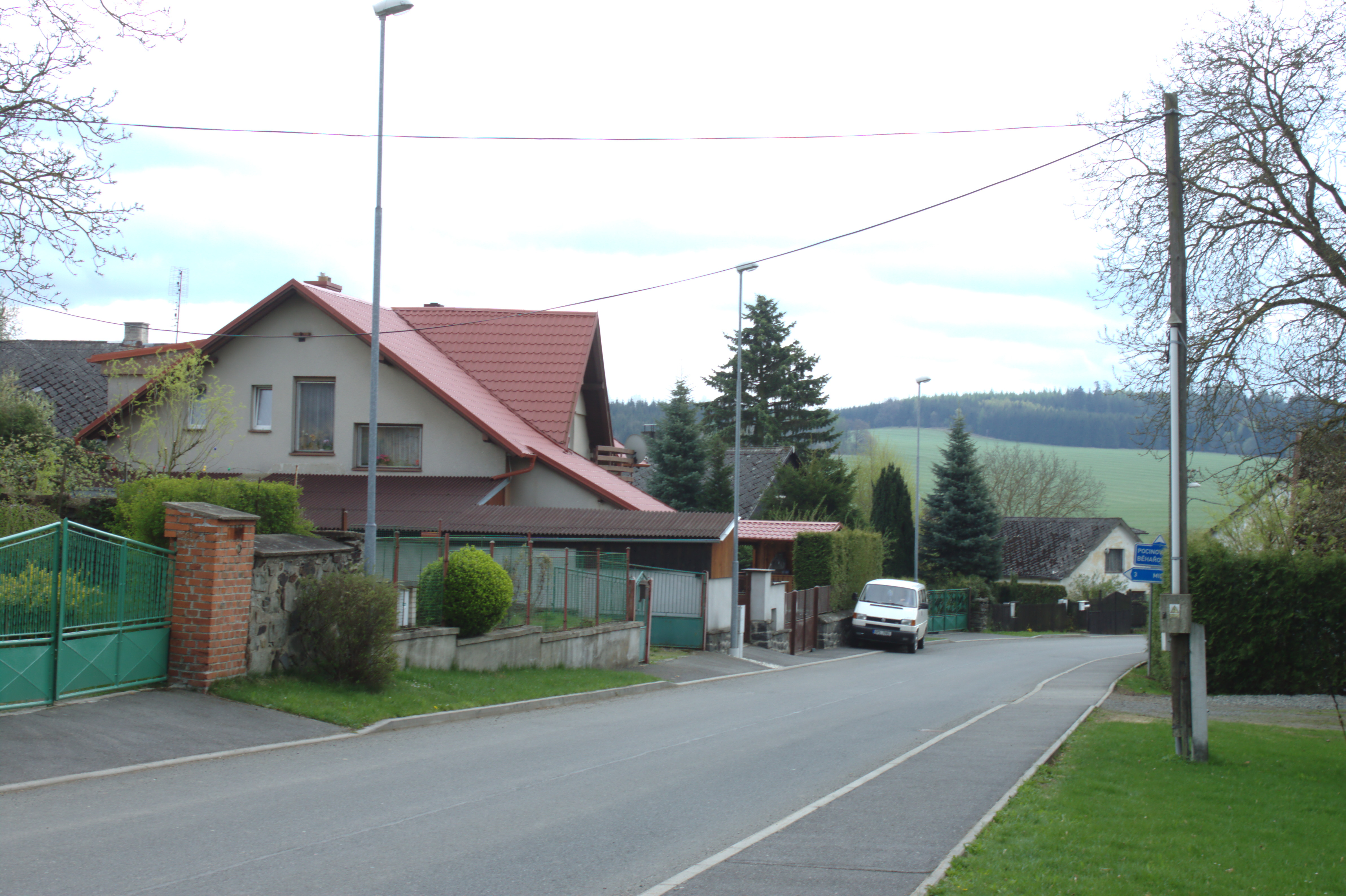 A road next to the main common in Libkov, Plzeň Region, CZ